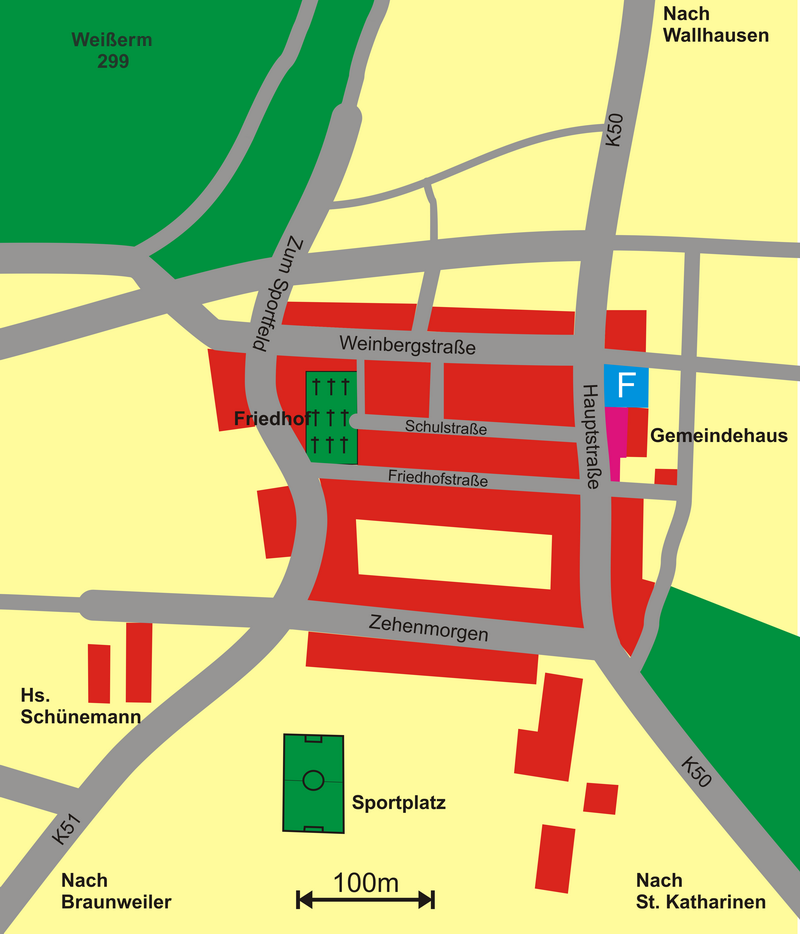 Based on Image:Sommerloch Plan.jpg